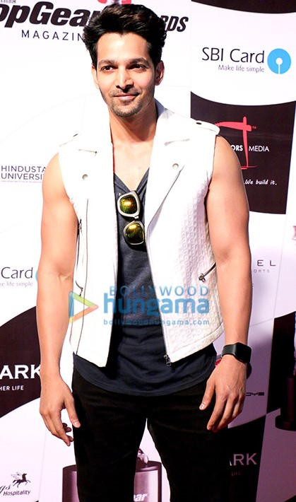 Harshvardhan Rane